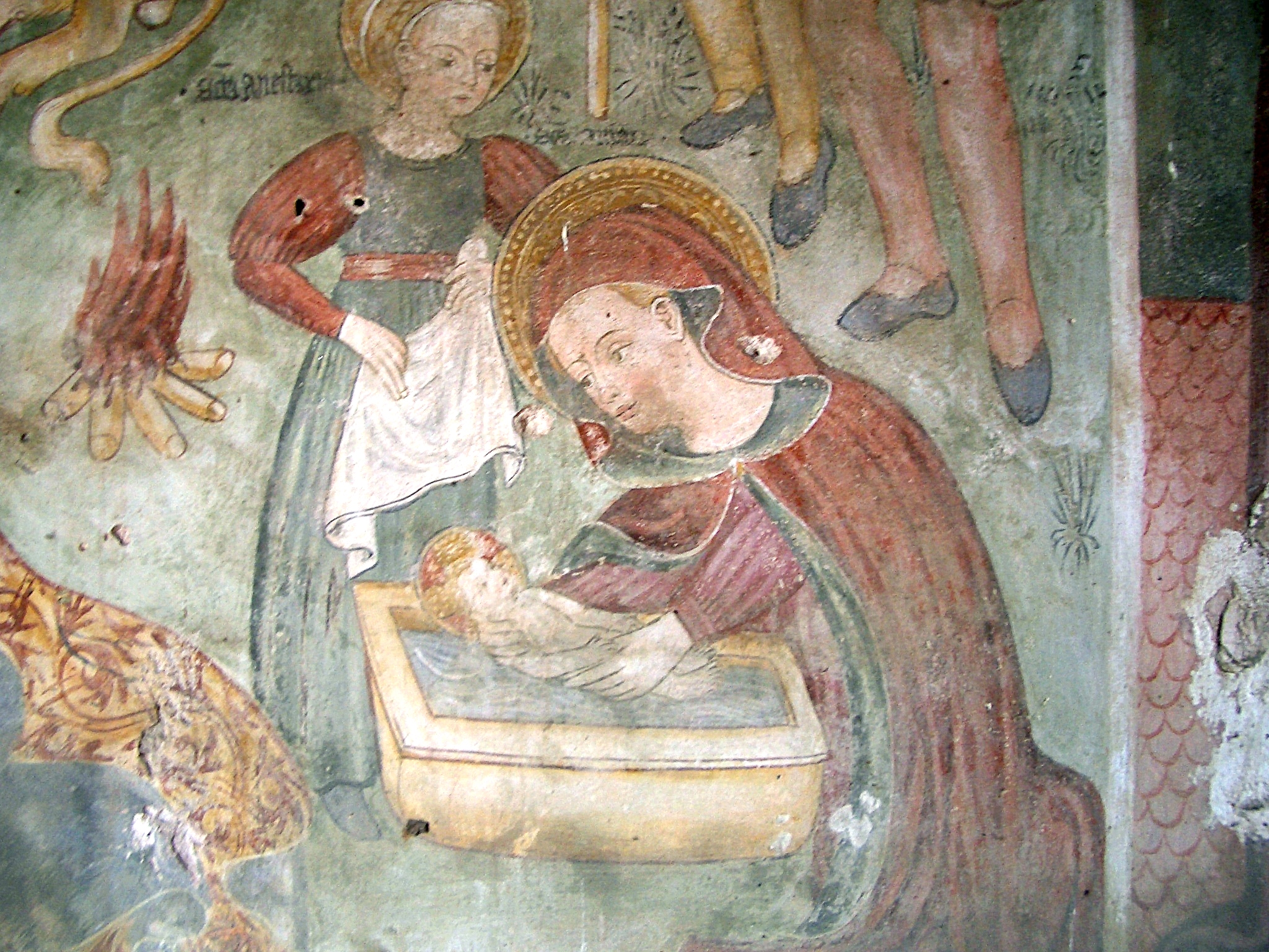 Giovanni de Campo, Nativity (detail), fresco, XV century, Caltignaga, Chiesa dei Santi Nazzaro e Celso (Sologno)